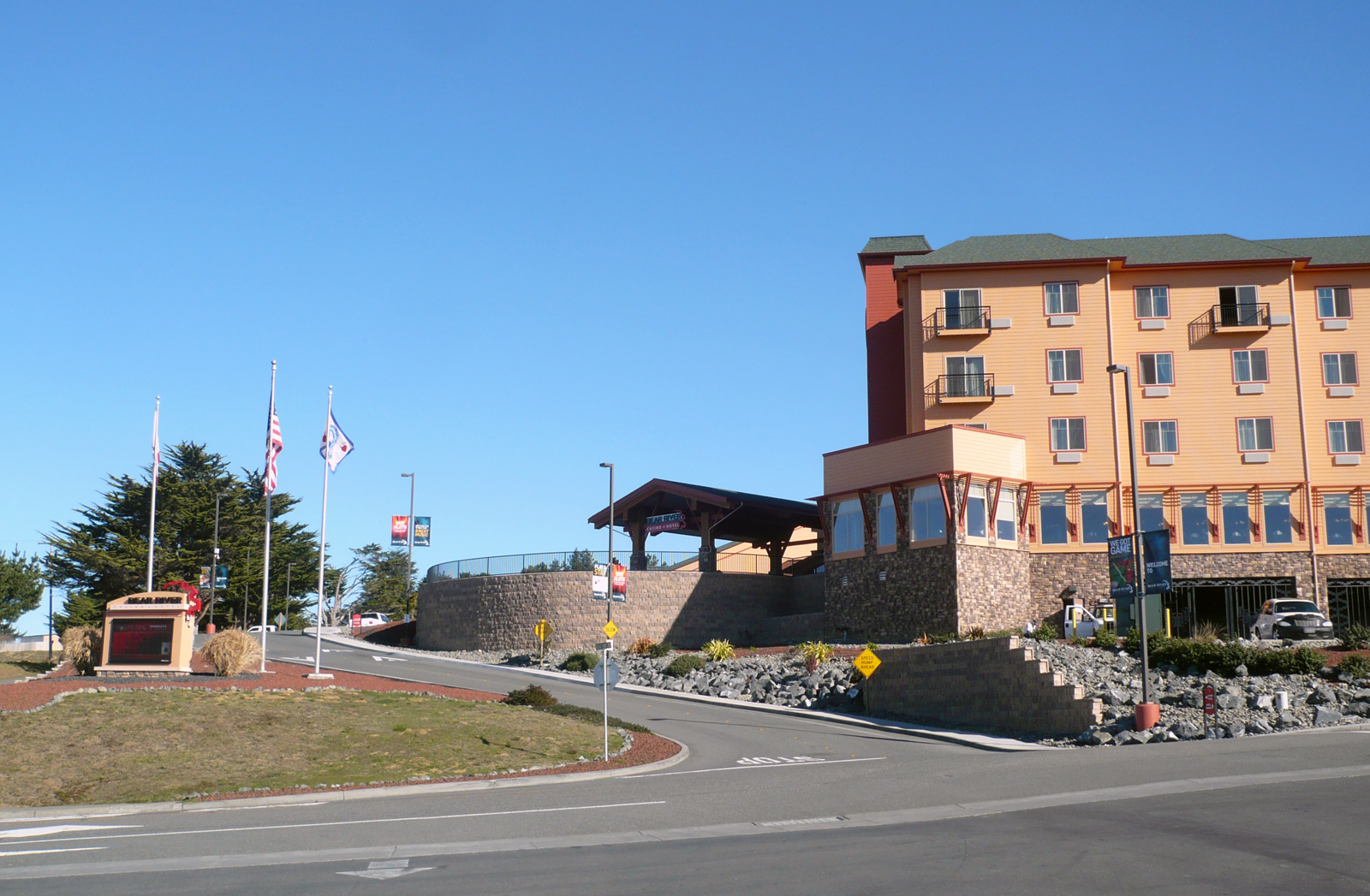 Bear River Casino, Loleta, California belongs to the Bear River Branch of the Rohnerville Rancheria and is located off U.S. Highway 101 at the Ferndale/Fernbridge exit.